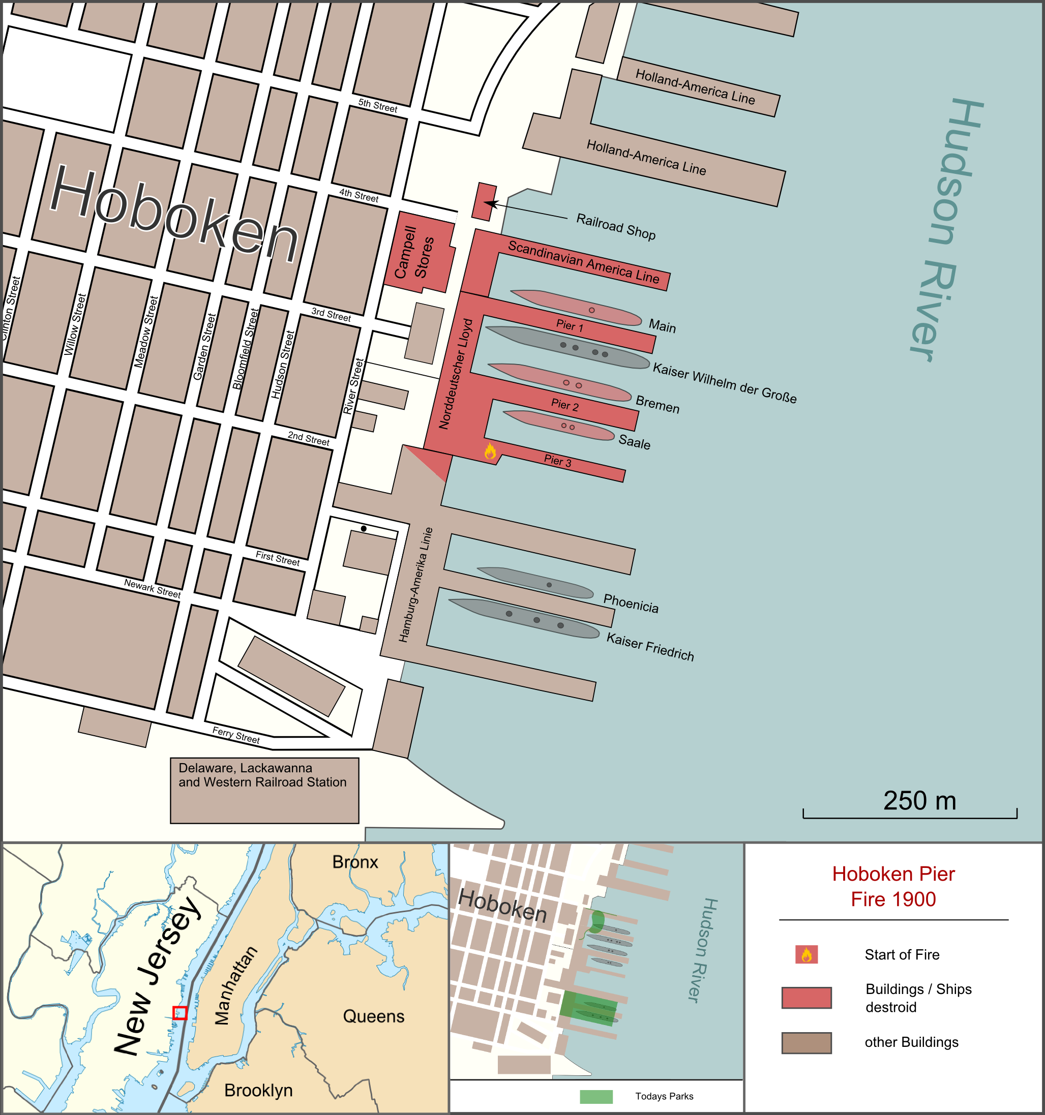 Map of the 1900 Hoboken Docks Fire showing the location of the piers and ships at start of fire.